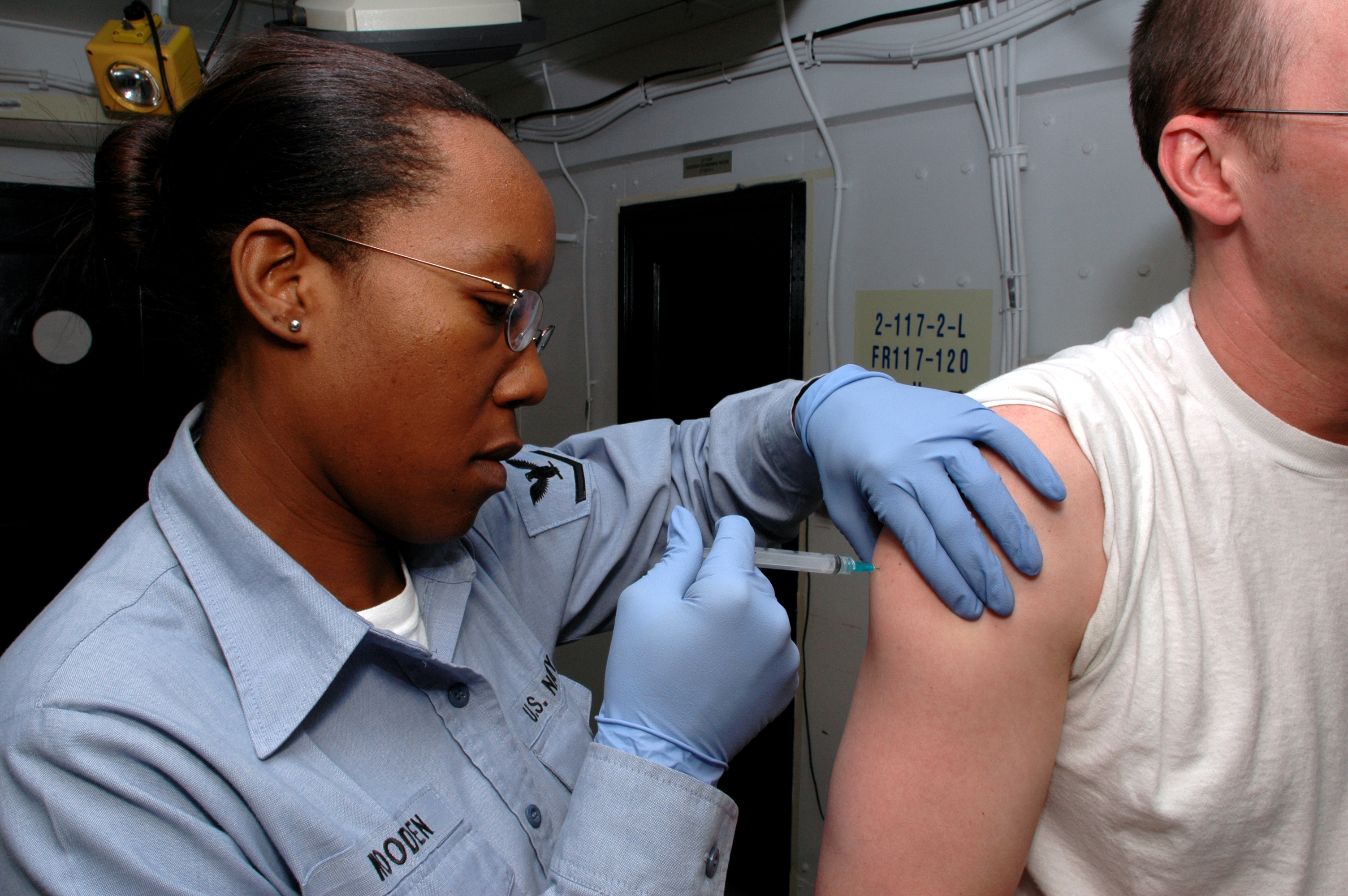 Pacific Ocean (June 2, 2005) - Hospital Corpsman 3rd Class Natasha Wooden administers a Hepatitis-B vaccine to a Sailors aboard the Nimitz class aircraft carrier USS Ronald Reagan (CVN 76). Reagan is currently underway conducting routine carrier operations. U.S. Navy photo by Photographer's Mate Airman Apprentice Christopher D. Blachly (RELEASED)